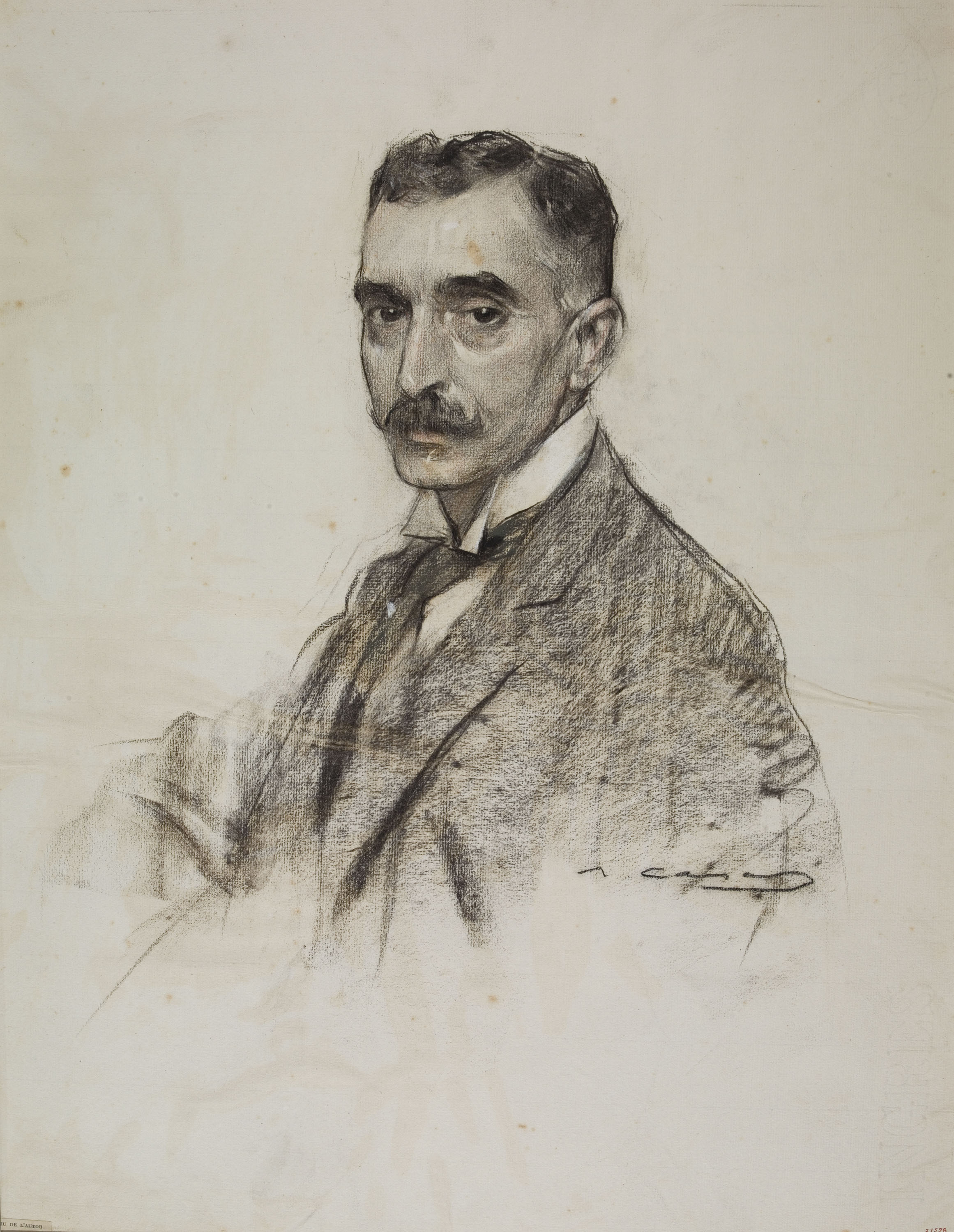 Portrait by Ramon Casas conserved at MNAC in Barcelona.